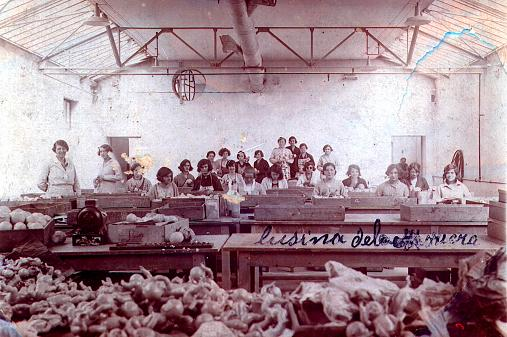 creative common